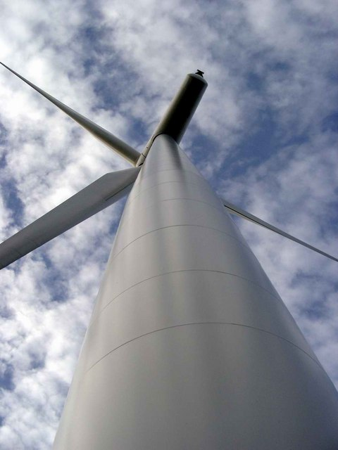 Wind turbine at Hadyard Hill 2.3MW turbine, one of 52 on this large wind farm